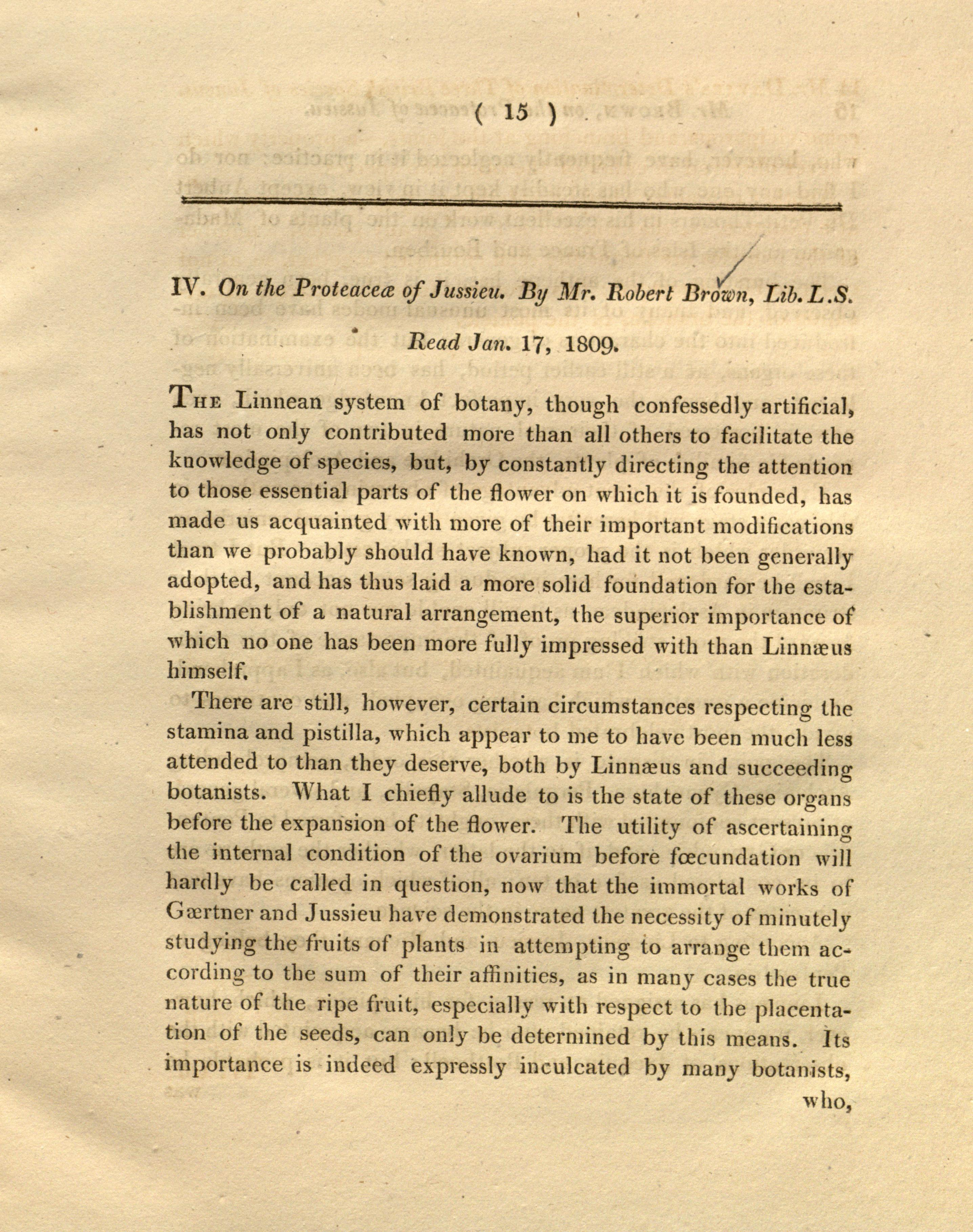 This is page 15 of Volume X of Transactions of the Linnean Society of London, published in 1810. It is the first page of Robert Brown's article On the Proteaceae of Jussieu.